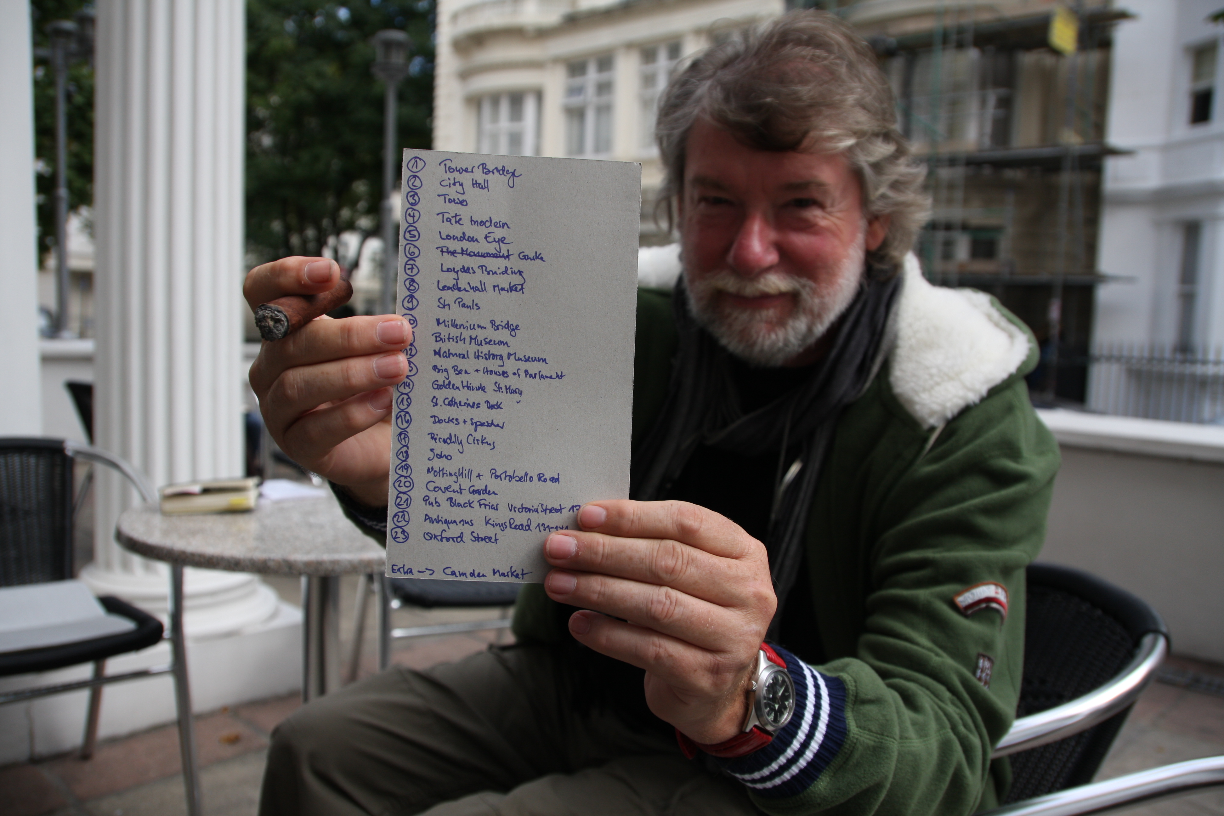 Professor Rolf Nobel during workshop in London 2009